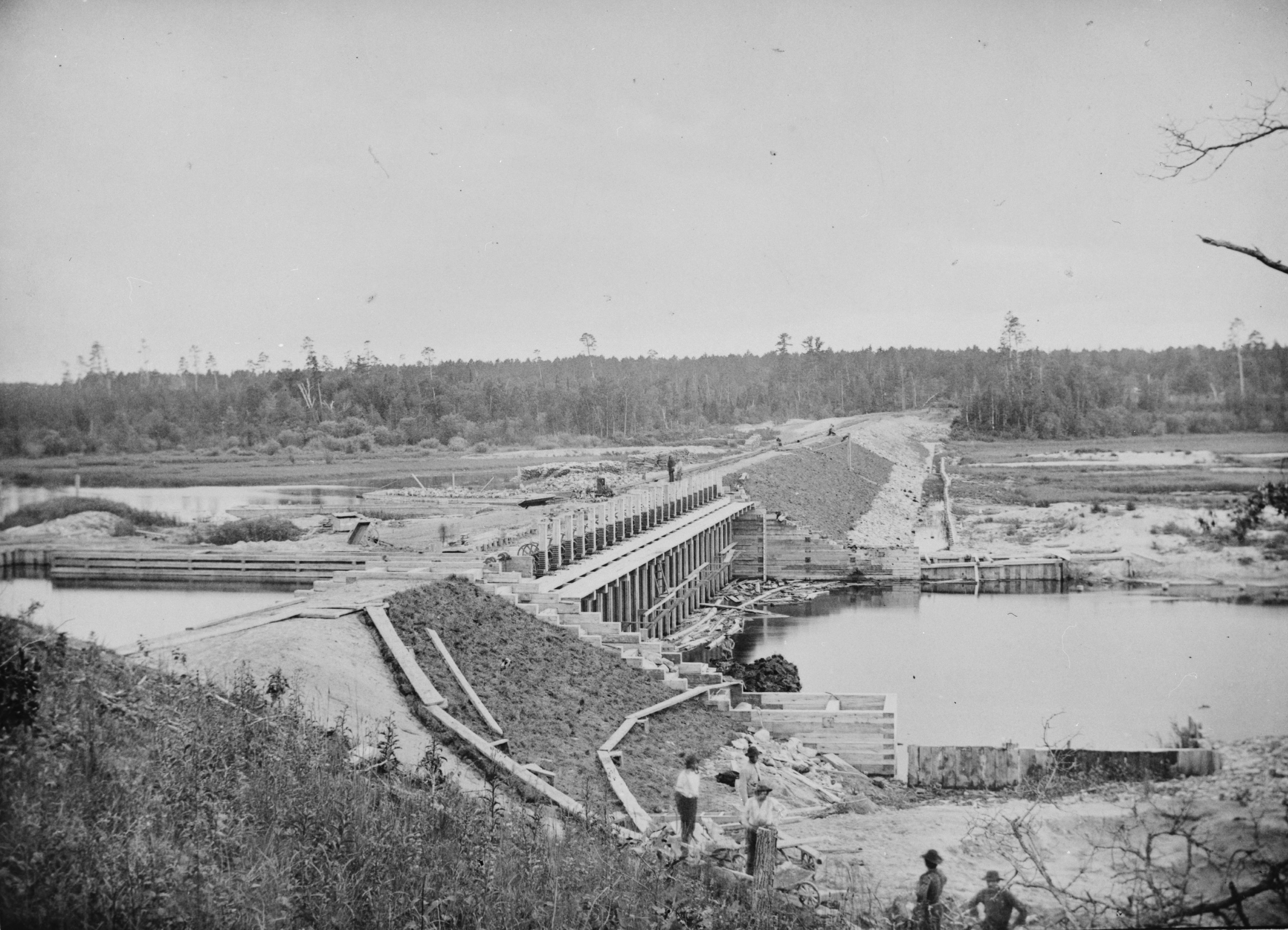 Historic photograph of Winnibigoshish Lake Dam, Minnesota, showing construction of the original timber dam.